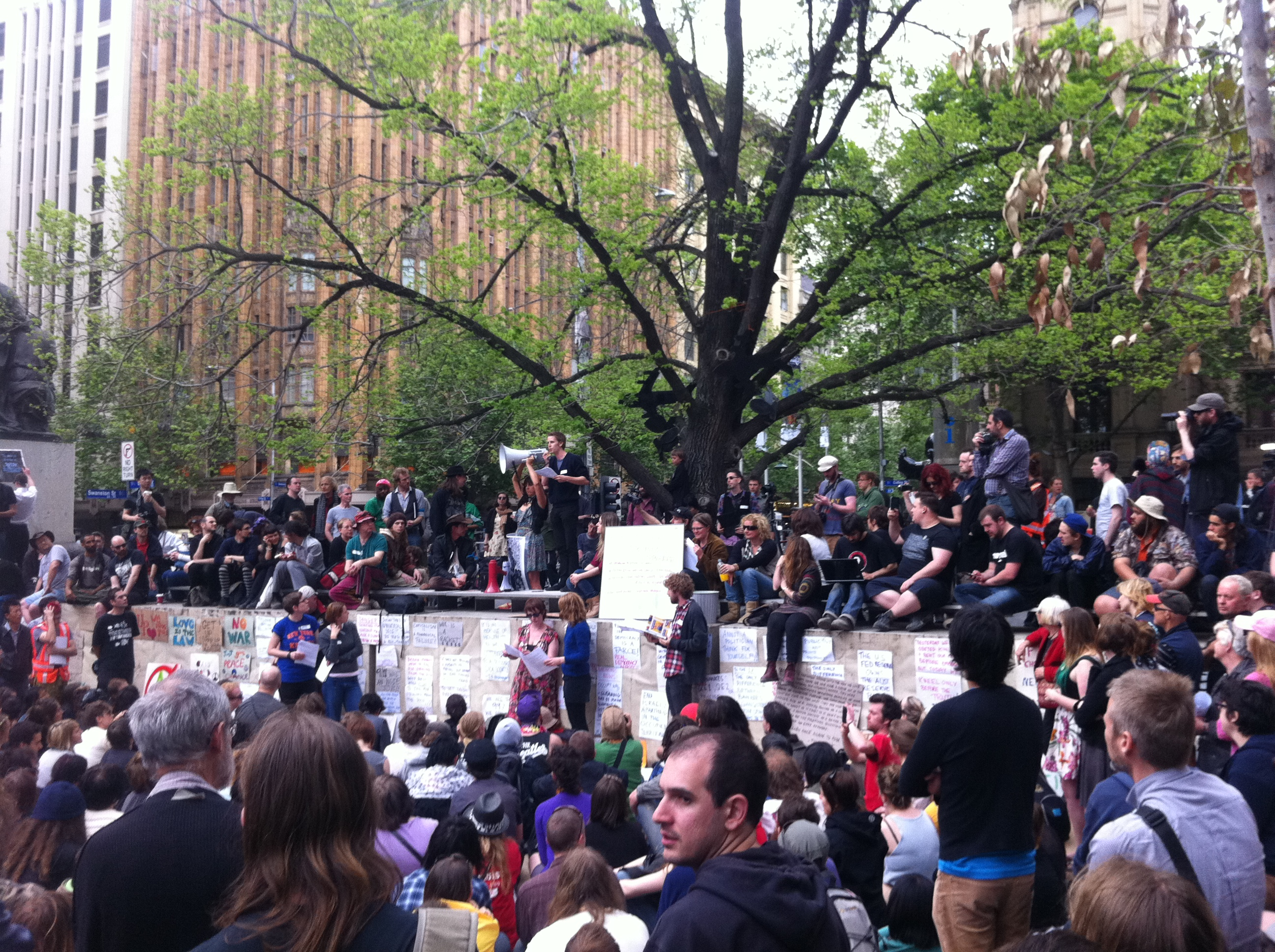 An image of Occupy Melbourne's First General Assembly, facing forwards towards the Facilitation team, at the northern end of City Square. October 15, 2011.